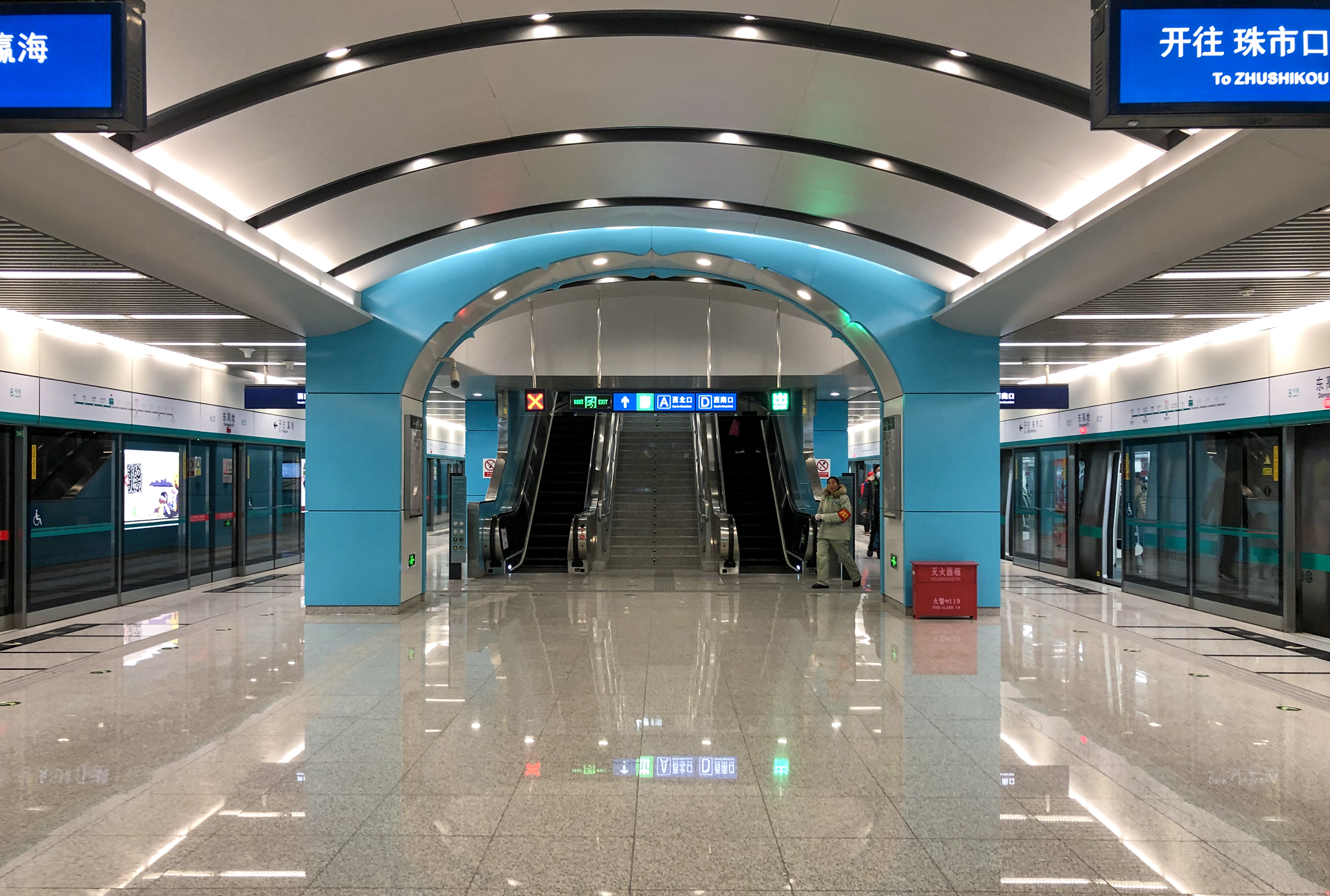 Located in Xiwadi, but named Donggaodi eventually. Higashi-Takachi...